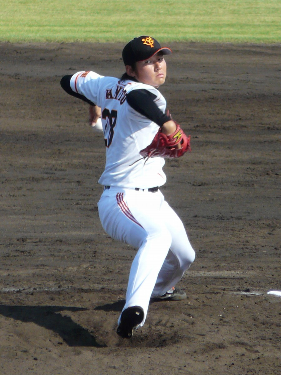 Norihito Kaneto, pitcher of the Yomiuri Giants, at Yokkaichi Kasumigaura Baseball Stadium